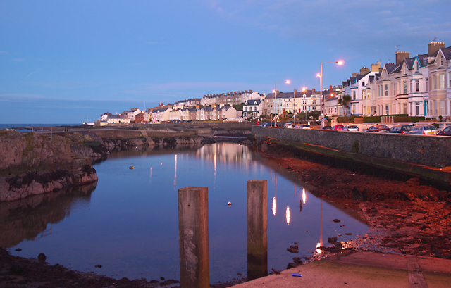 The 'Long Hole' at dusk. A view of this disused harbour in Bangor at dusk. The Seacliff Road is on the right. Compare with 1601818 and see also 9423247 for further related images.